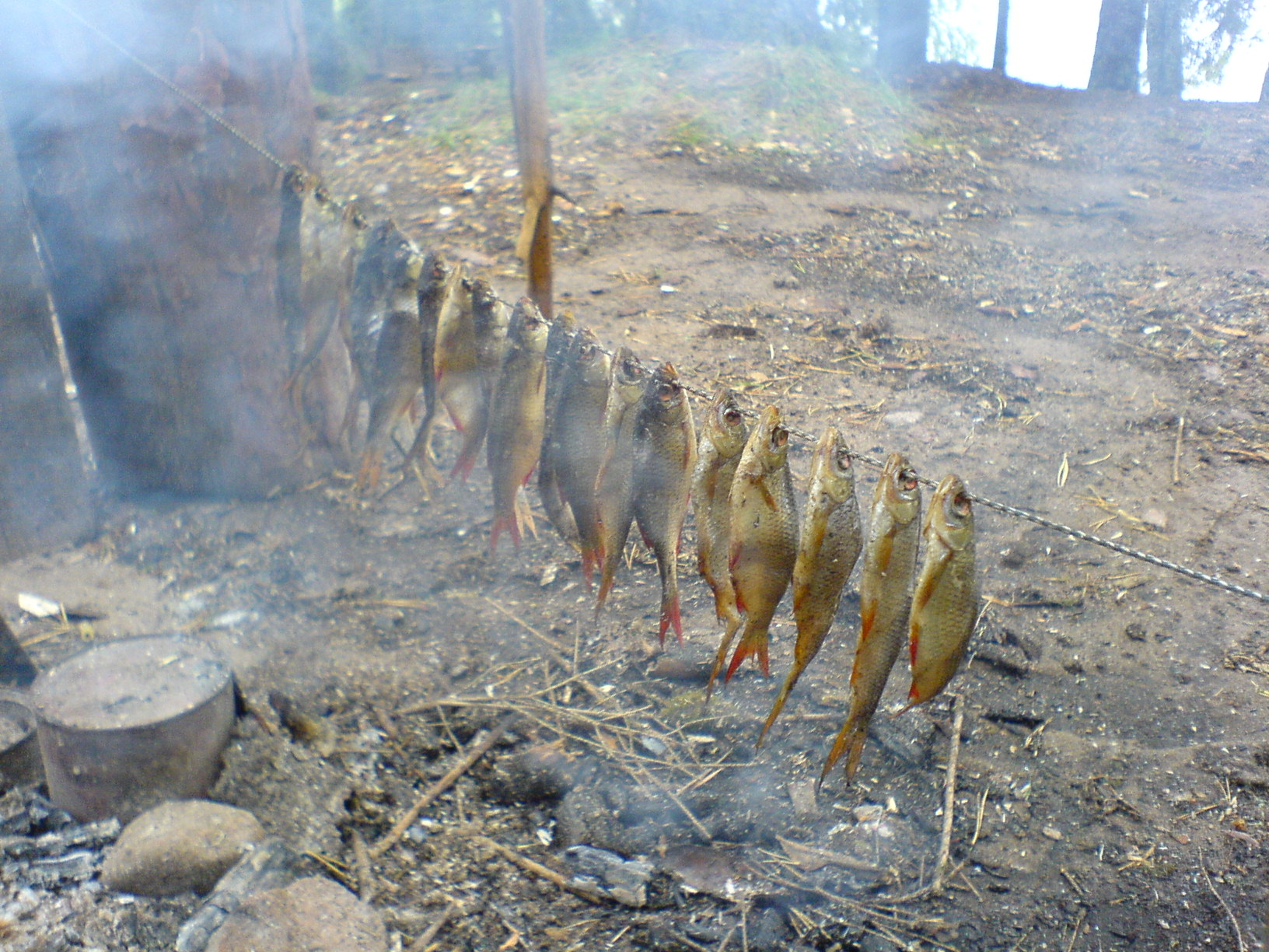 Stockfish.